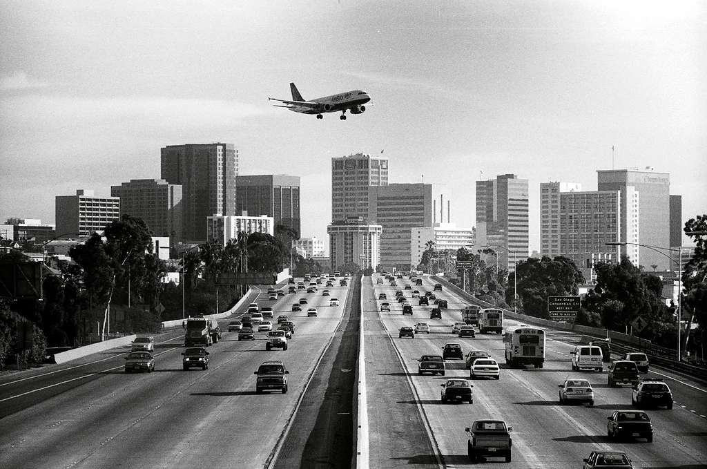 A view of a plane flying into San Diego over Interstate 5 South. The city skyline including the distinctive octagon shaped Holiday Inn hotel can be seen on the horizon. I took this picture on January 11, 2002 from a bridge overlooking the highway. Additional details can be found at jepler 14:34, 28 February 2007 (UTC)